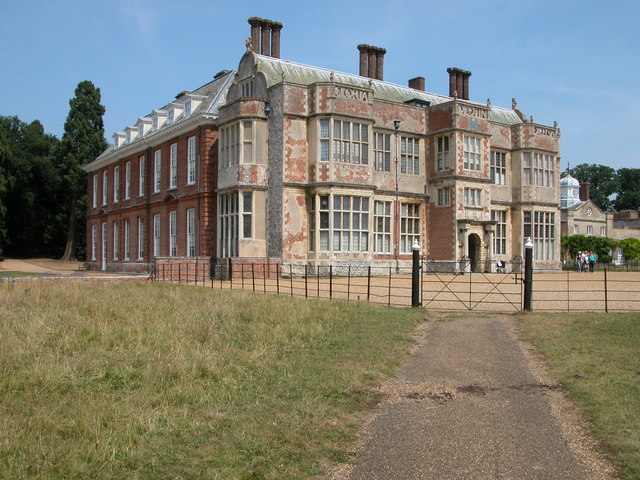 Felbrigg Hall, Norfolk. The south front of Felbrigg dates from the 1620s which contrasts with the west front which dates from the 1680s. The hall has been in the care of the National Trust since 1969.